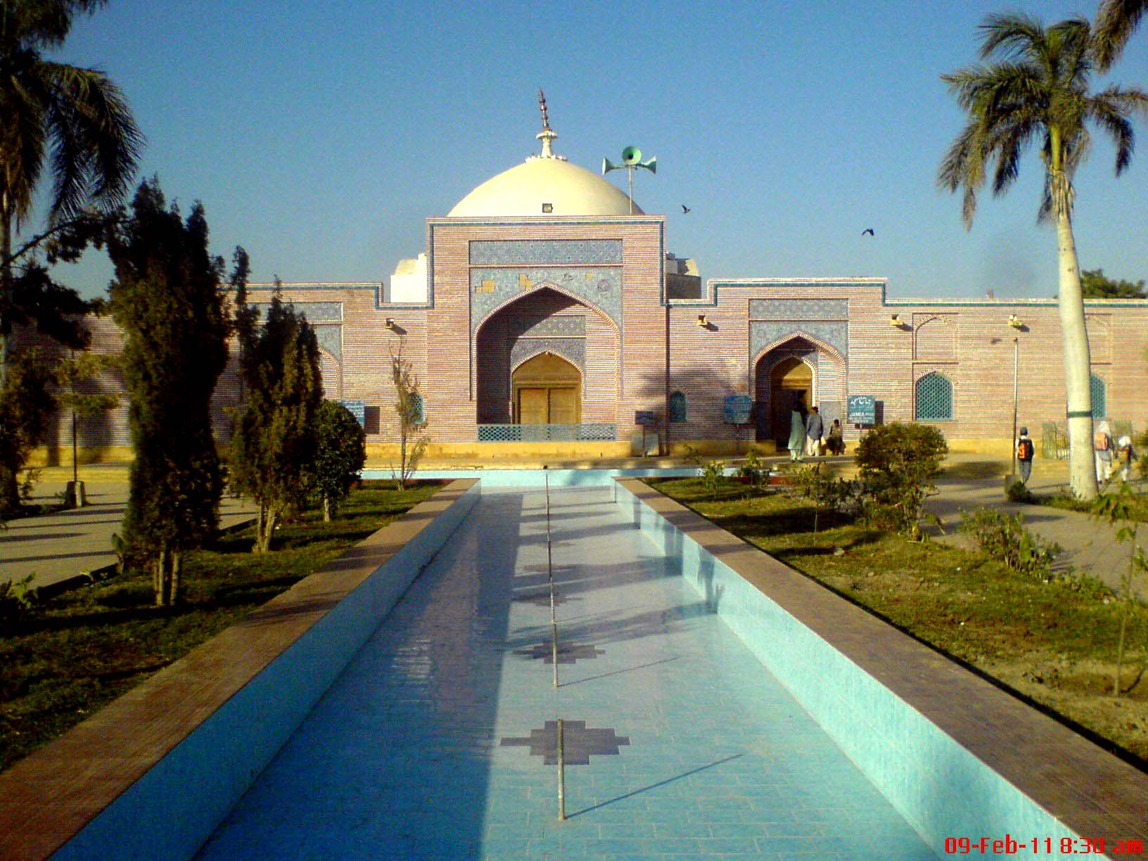 Shah Jahan Mosque, Thatta This is a photo of a monument in Pakistan identified as the SD-90